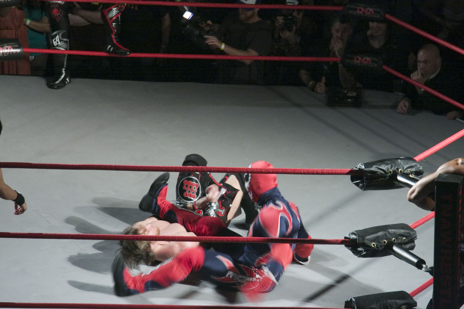 TNA Wrestler Suicide performin a Leg Drop